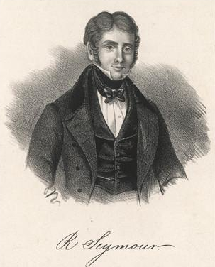 Portrait of Robert Seymour c.1836, the year of his death